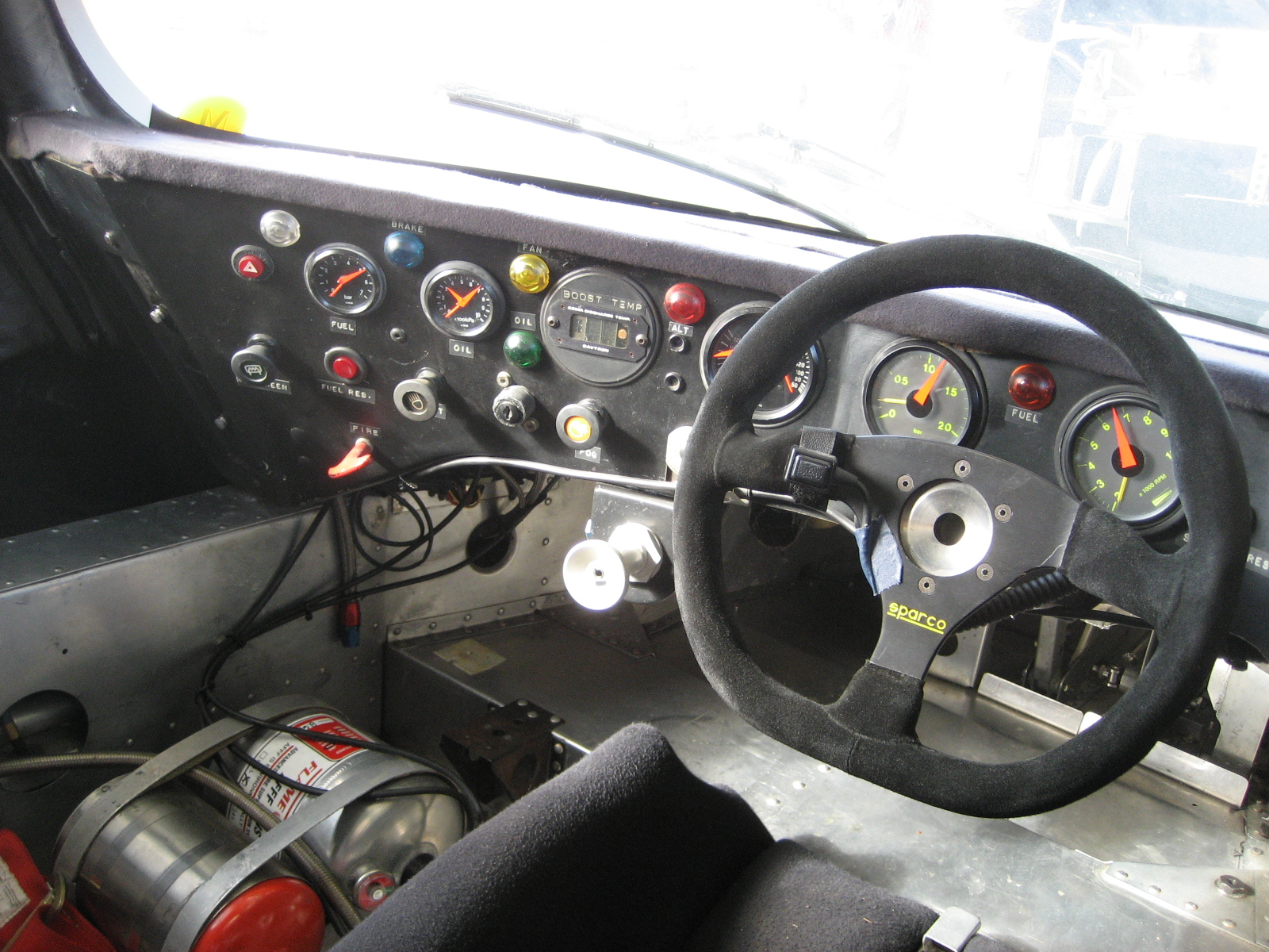 The cockpit of Porsche 962 chassis #119